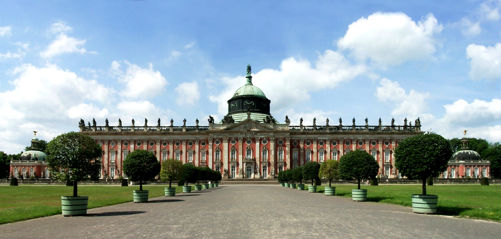 The New Palace in Sanssouci Park